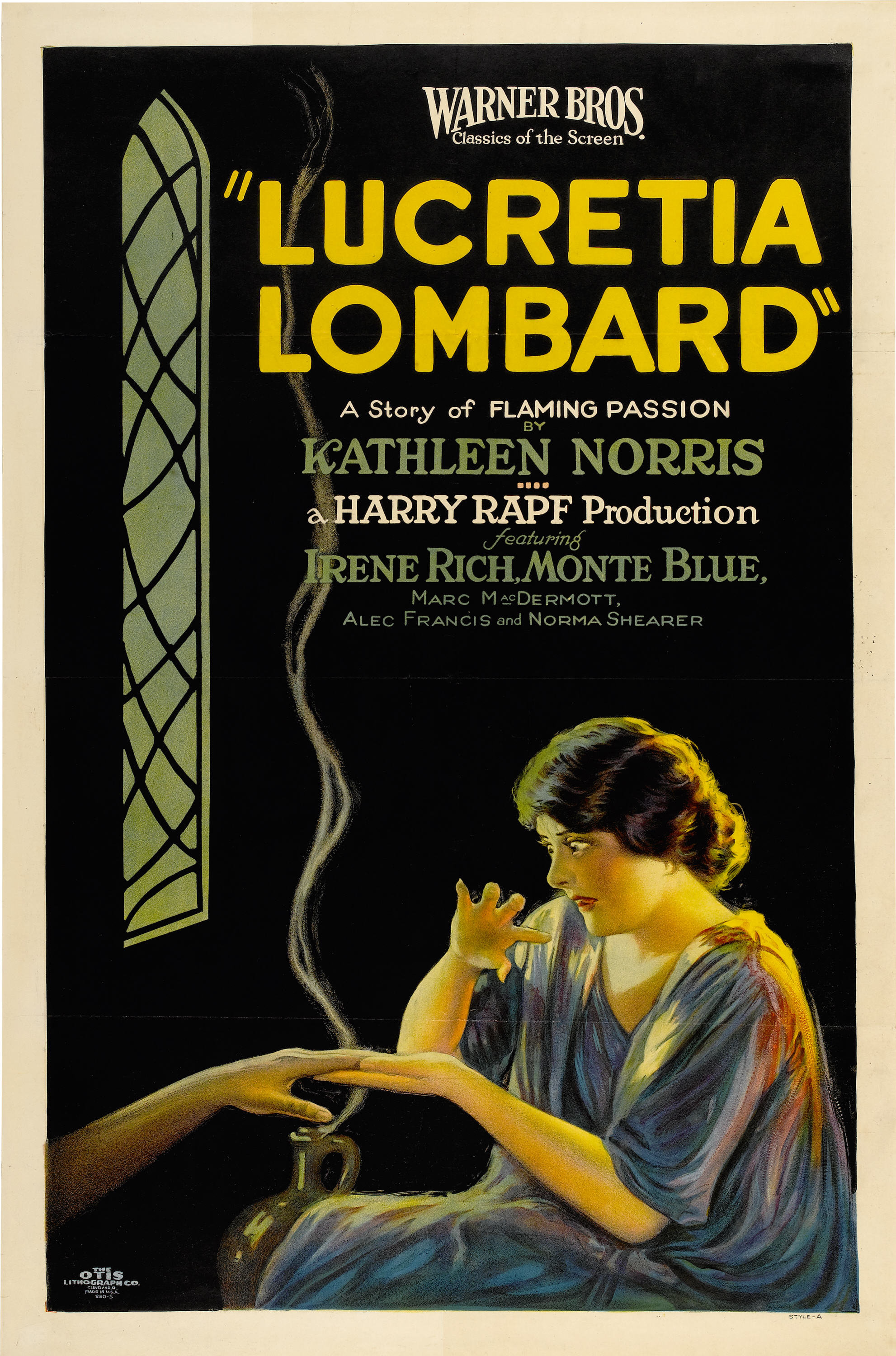 Poster for the American drama film Lucretia Lombard (1923) with no copyright notices, thus in the public domain.